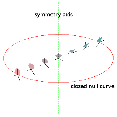 This figure depicts a closed null curve in a cylindrical chart for the Goedel lambdadust solution, an exact solution of the Einstein field equation.